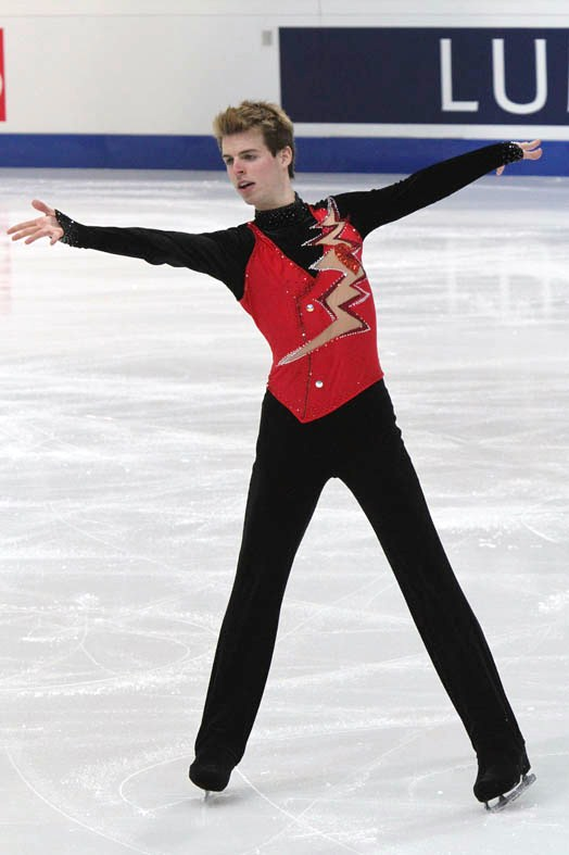 Stéphane Walker at the 2011 European Figure Skating Championships.